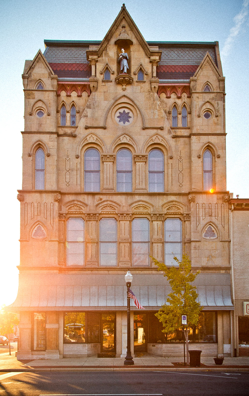 Monumental Building in Sidney, Ohio.